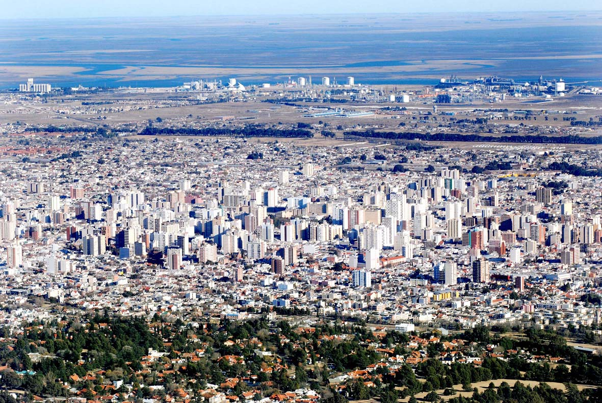 Panoramic view of Bahía Blanca, Argentina.